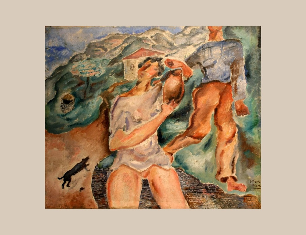 Nikola Martinoski "Harvest", 1928/30, Museum in Smederevo